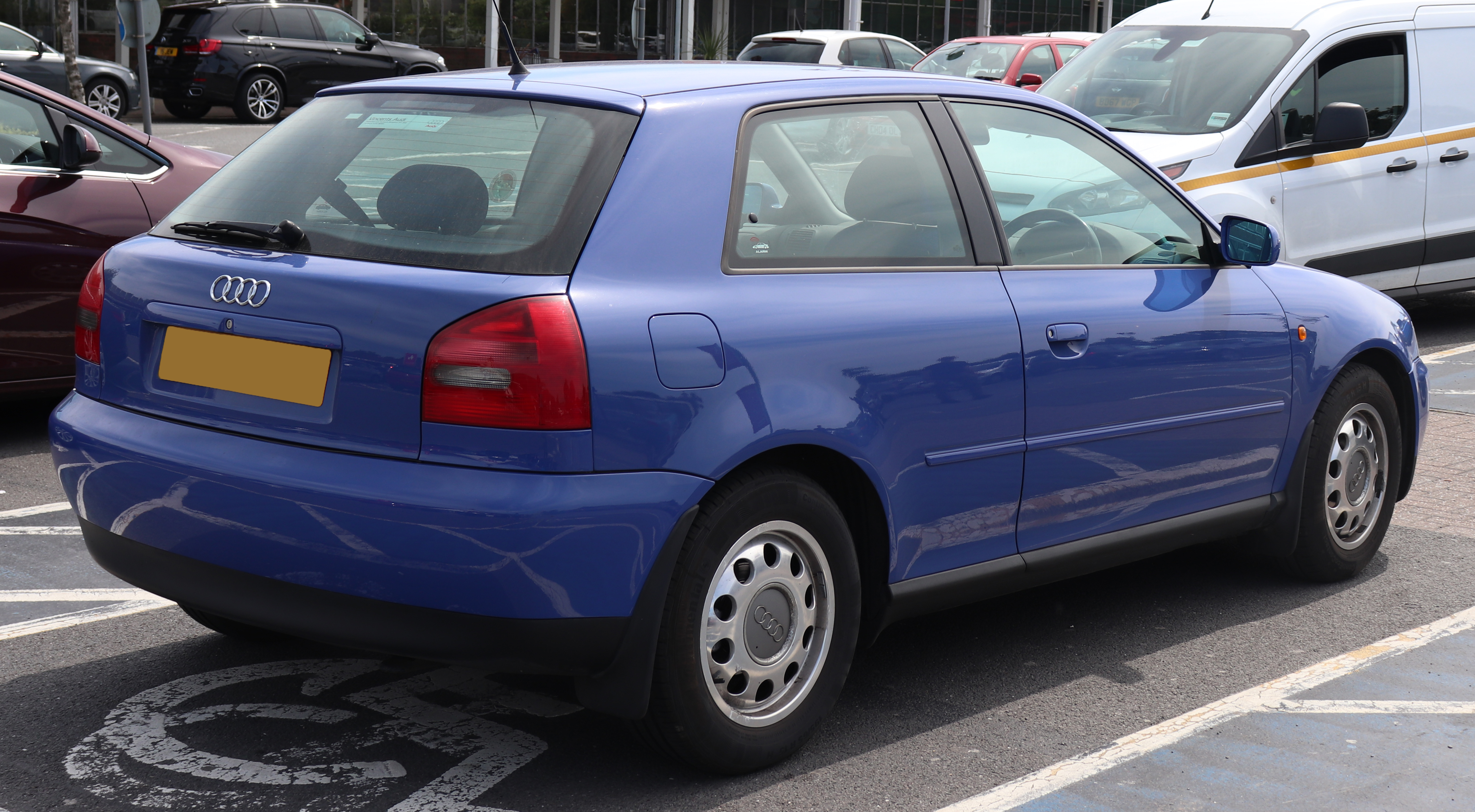 1998 Audi A3 Automatic 1.6 Rear Taken in Solihull